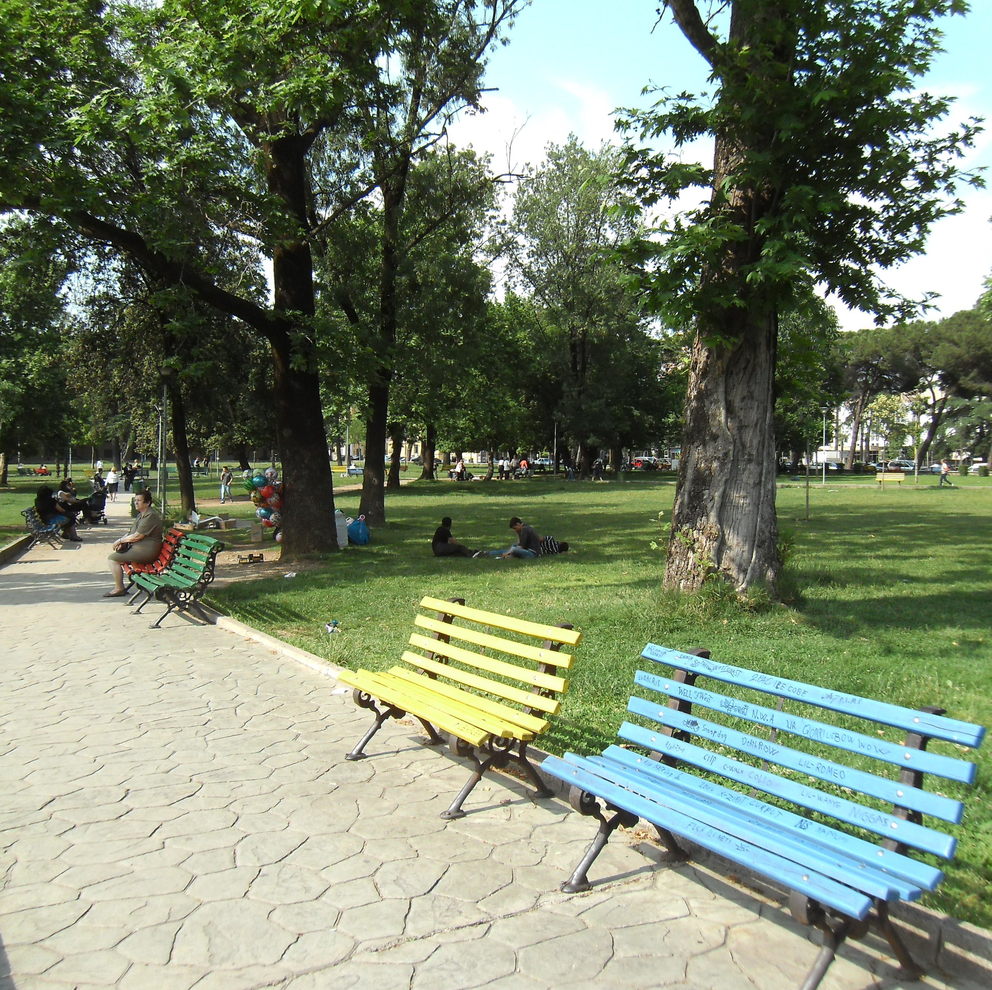 Coloured benches in Tirana